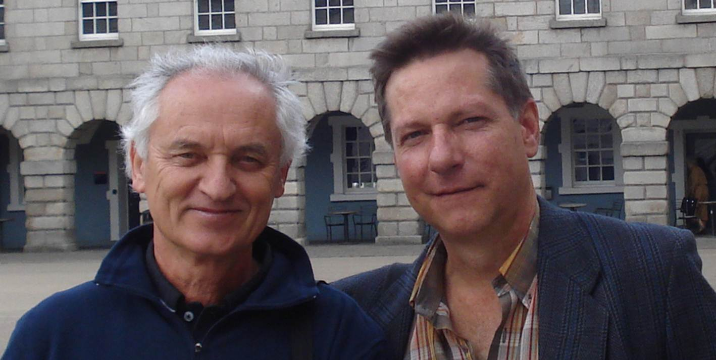 Lumír Hanuš (left) and William Devane (right) worked hard one and half year to discover anandamide